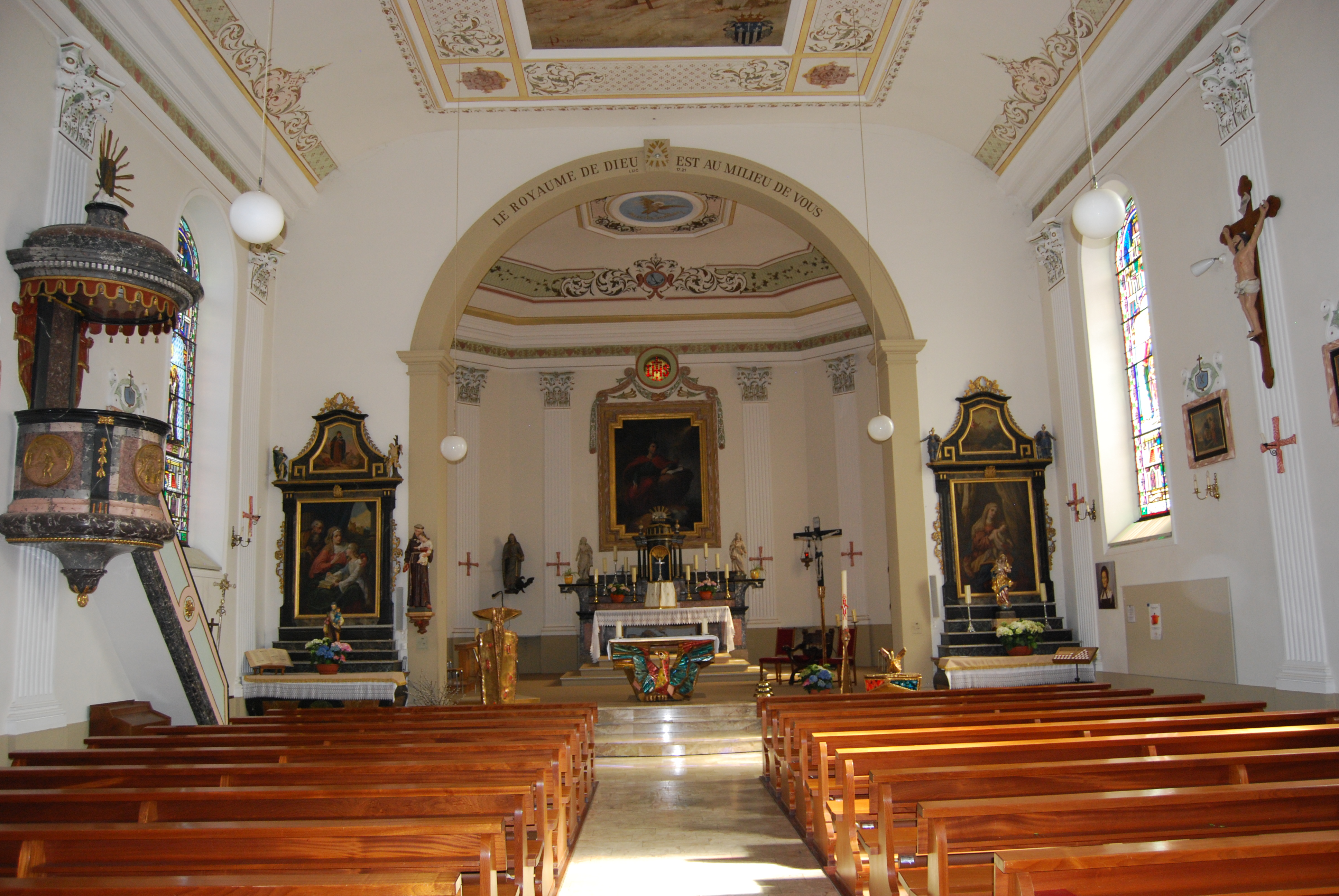 Catholic Church of Cressier, canton of Fribourg, Switzerland